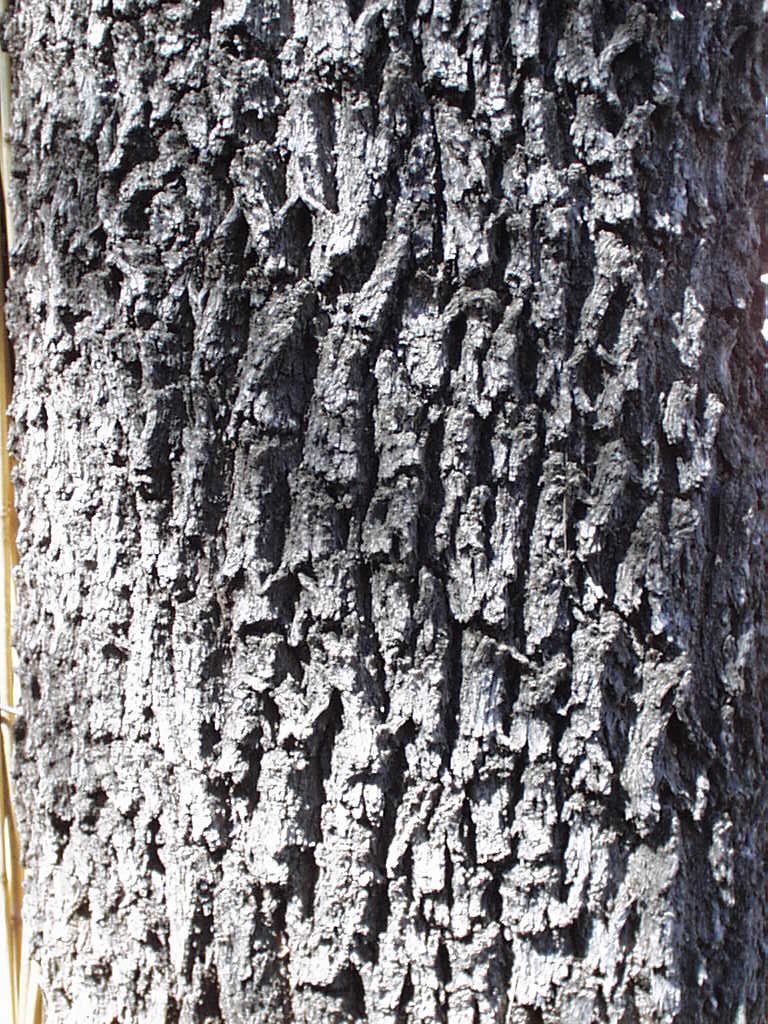 own image Paul venter 20:09, 28 July 2006 (UTC)